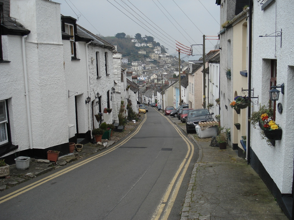 Looking down West Looe Hill towards the harbour. Taken by Tim Miller, March 2007.